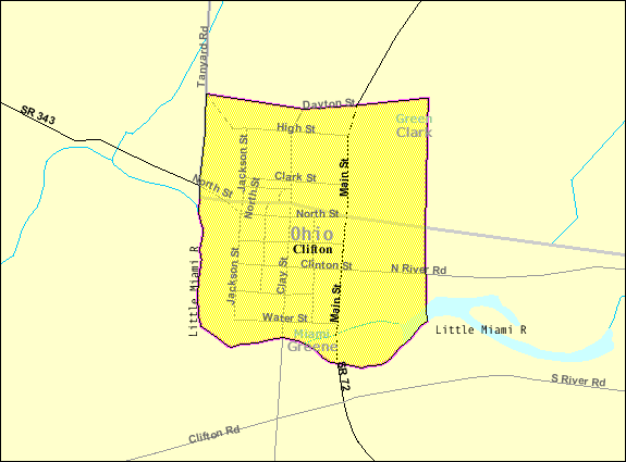 Map of Clifton, a village in Clark and Greene counties in the U.S. state of Ohio, with its boundaries at the time of the 2000 census.